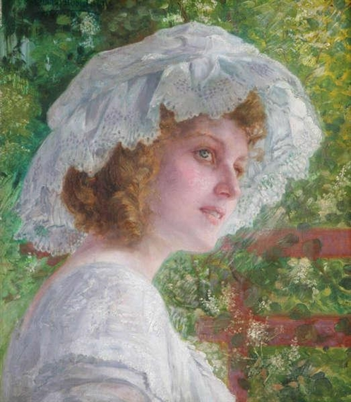 Printemps BY EMILE PIERRE B. DE LA MONTAGNE